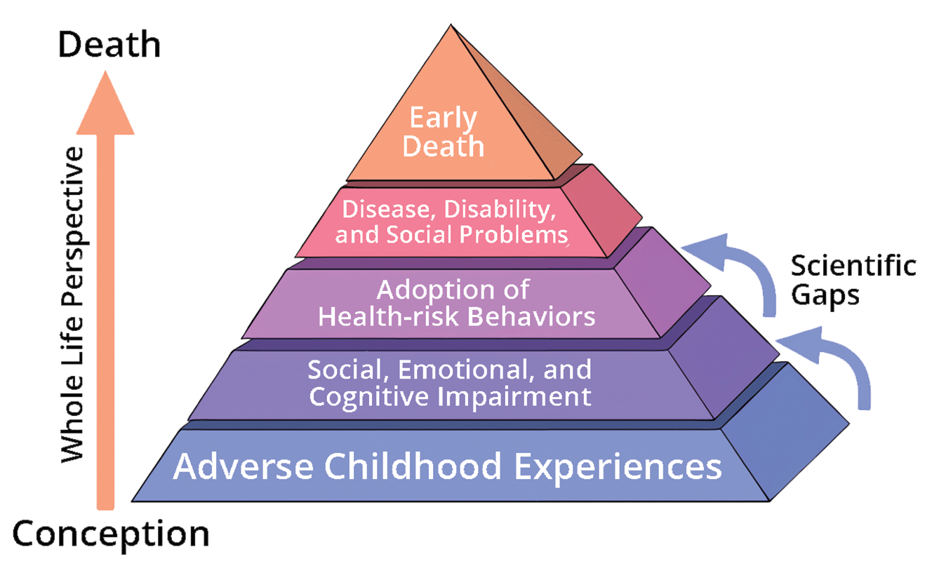 Graph showing how adverse childhood experiences are related to risk factors for disease, health, and social well-being. The lifespan is represented as an arrow ascending past the layers of a pyramid, beginning at Adverse Childhood Experiences and moving through Social, Emotional, and Cognitive Impairment; Adoption of Health-risk Behaviors; Disease, Disability, and Social Problems; and finally Early Death. Smaller arrows depict gaps in scientific knowledge about the links between Adverse Childhood Experiences and later risk factors.